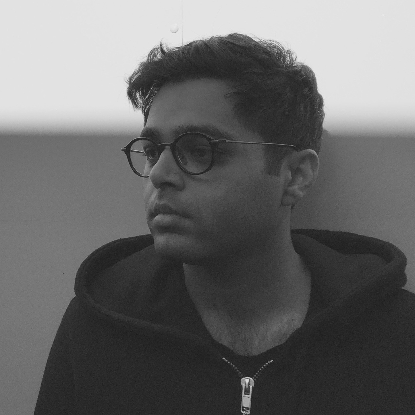 Rafiq in Indianapolis in 2016.